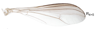 Right wing of a Dolichopodidae (Diptera), showing R4+5 vein.